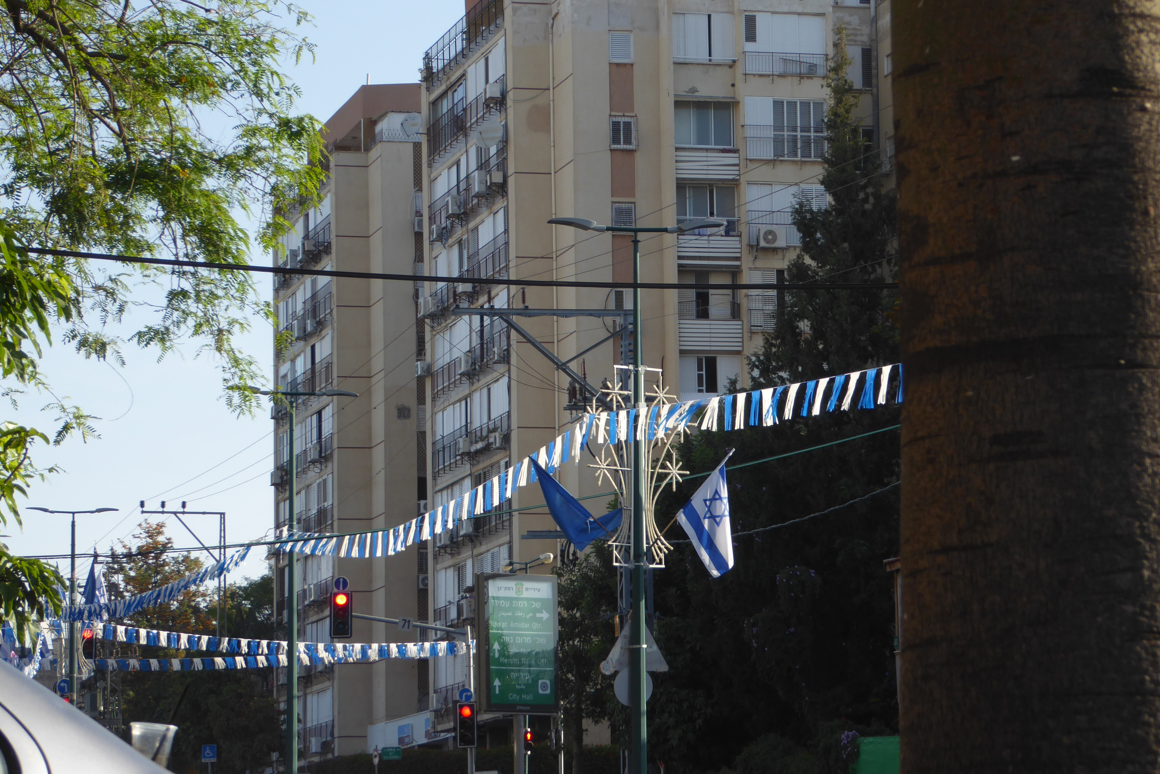 Ramat Gan Israel